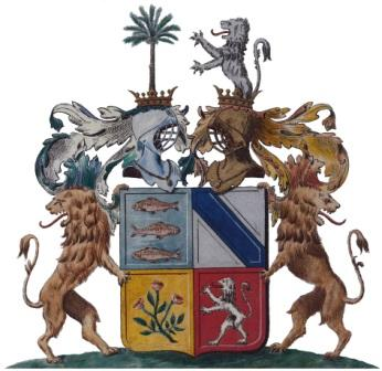 Wappen RvT